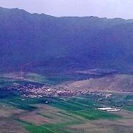 روستای لکان